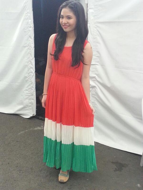 Sharlene San Pedro backstage during ASAP Fans Day on production number ASAP Galing on May 18, 2014